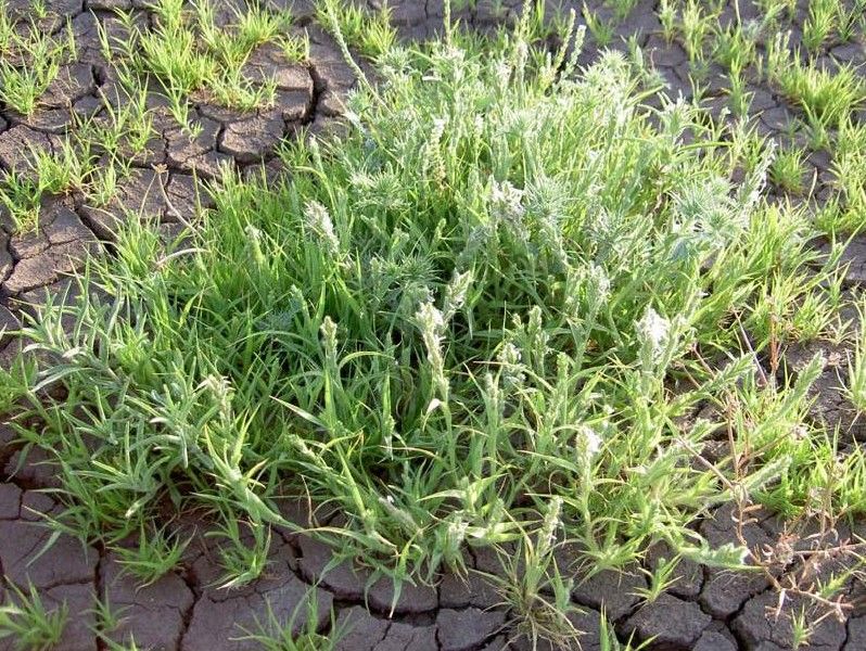 Tuctoria greenei USFWS photo